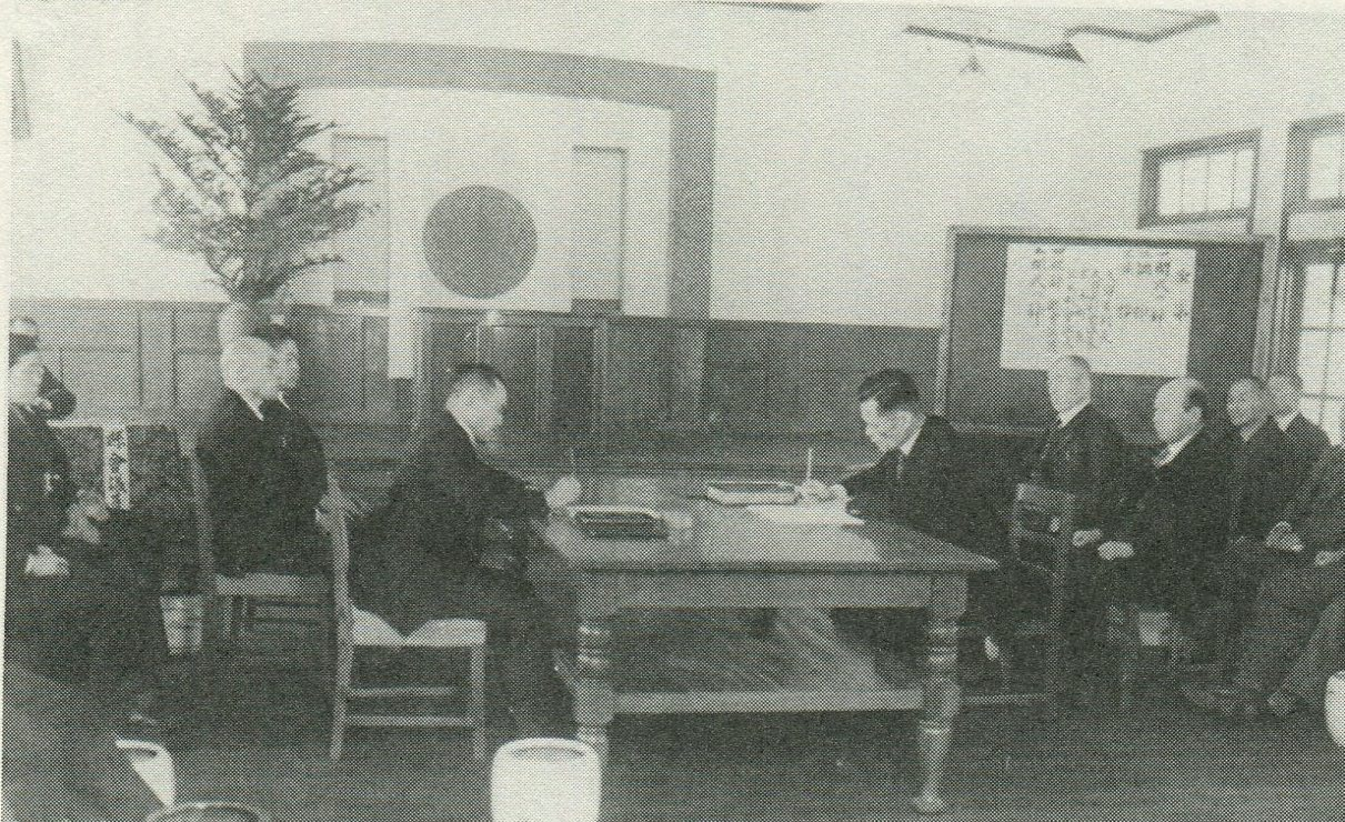 Miki town and Kurumi village Signing ceremony merger in 1951.2.12